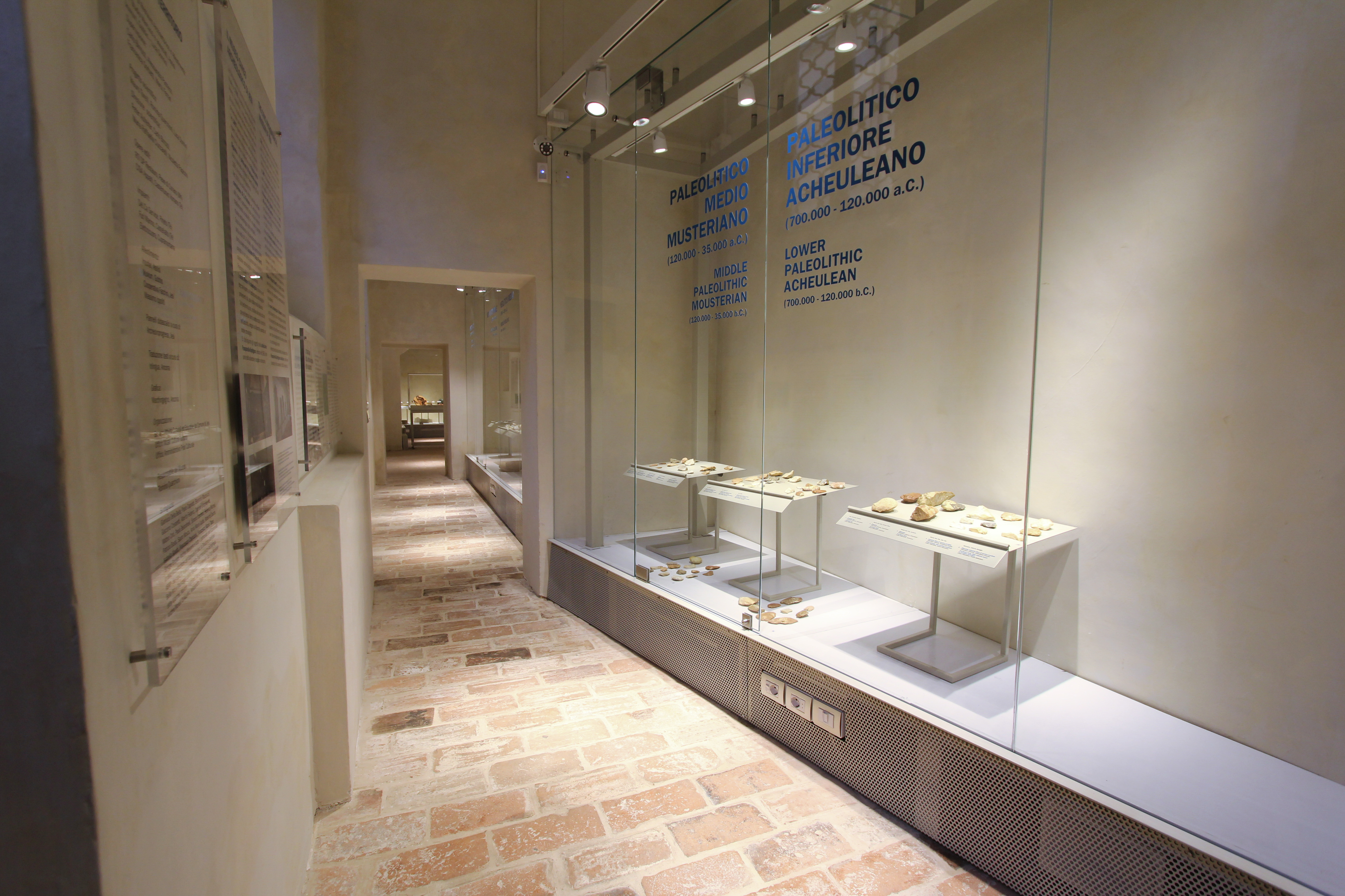 La fotografia riprende di scorcio l'ingresso del Museo